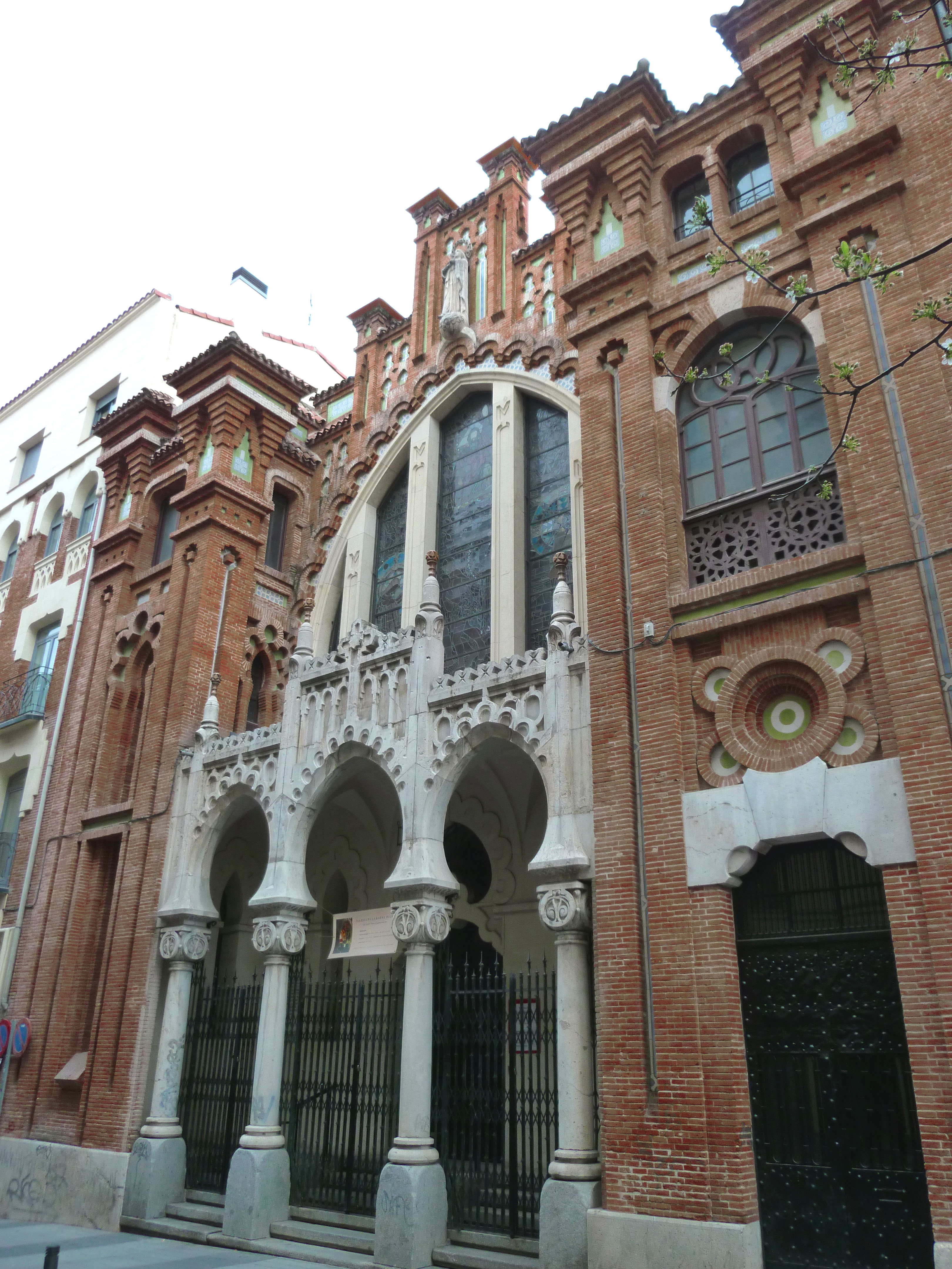 Façade of Iglesia de la Buena Dicha (a church) in Madrid (Spain).